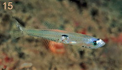 Picture of Crystallogobius linearis